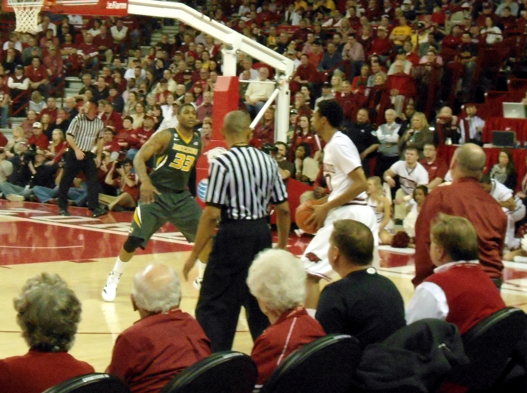 Arkansas Razorbacks vs the Missouri Tigers in Bud Walton Arena